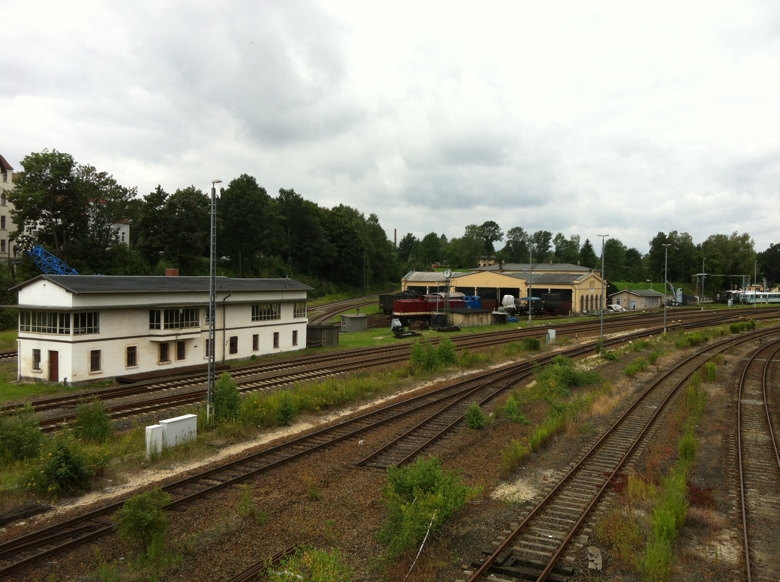 Blick von der Weißenberger Brücke auf das Löbauer Maschinenhaus und das Stellwerk W5/6